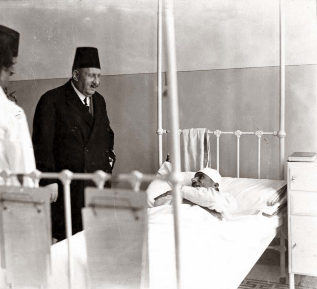 King Fouad I of Egypt visiting a sick man at the Railway Hospital after its inauguration.